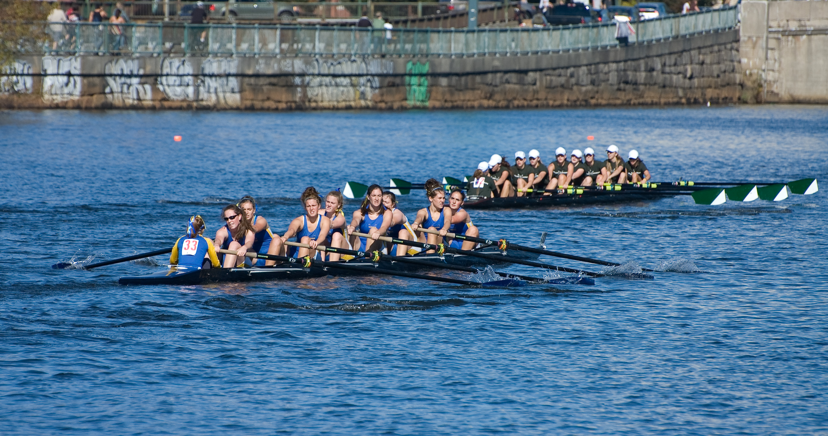 Two collegiate women's eight shells at the Head of the Charles regatta, October 2007. Number 33 is the Middlebury College crew.